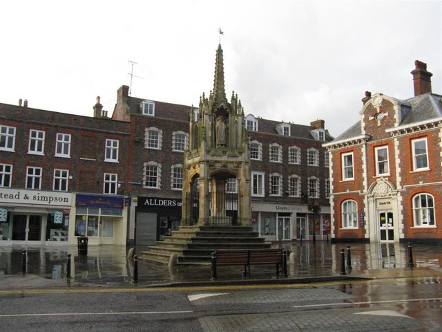 15 Century market cross, Leighton Buzzard